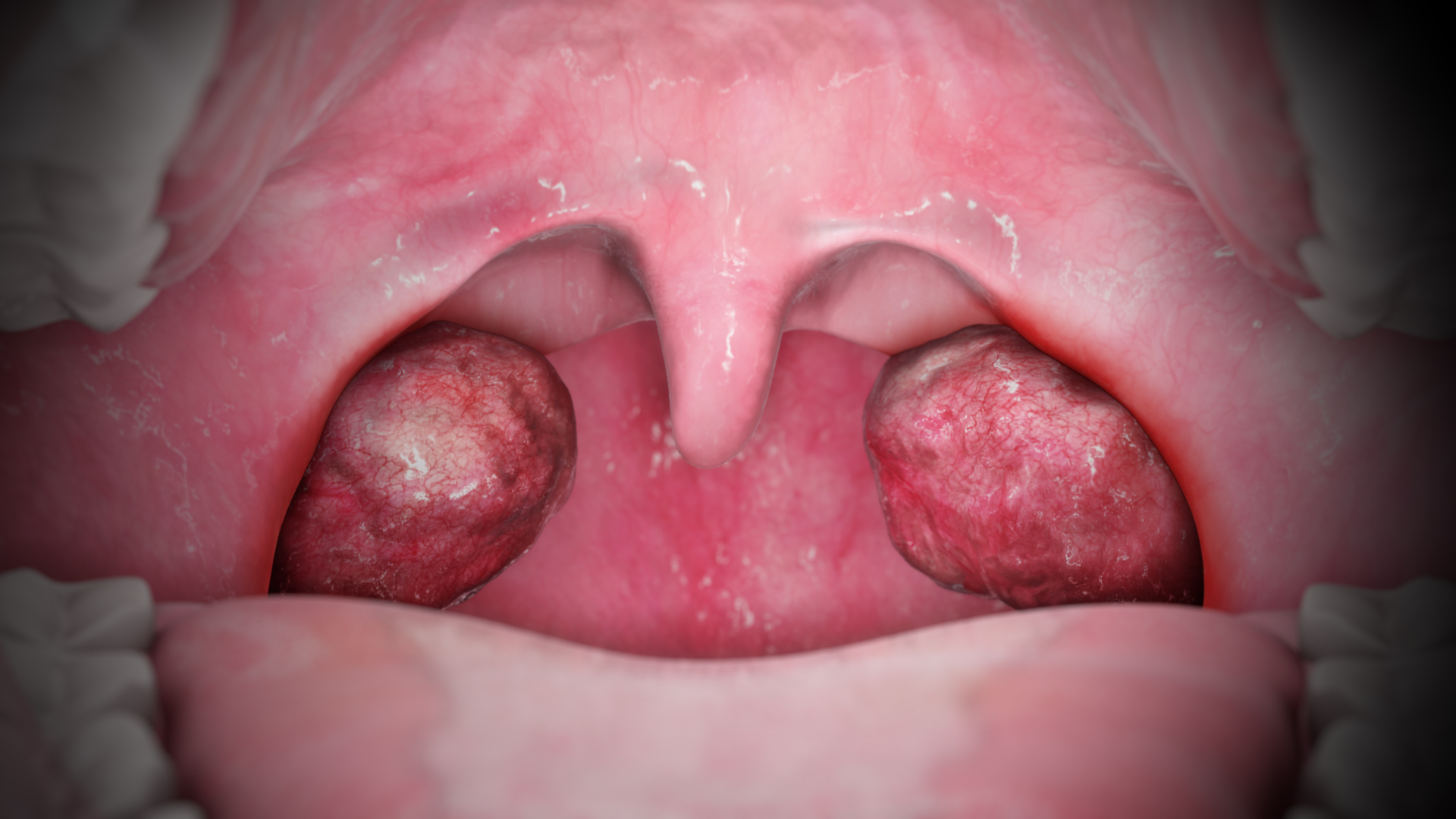 Medical Animation Still Showing Palatine Tonsil.